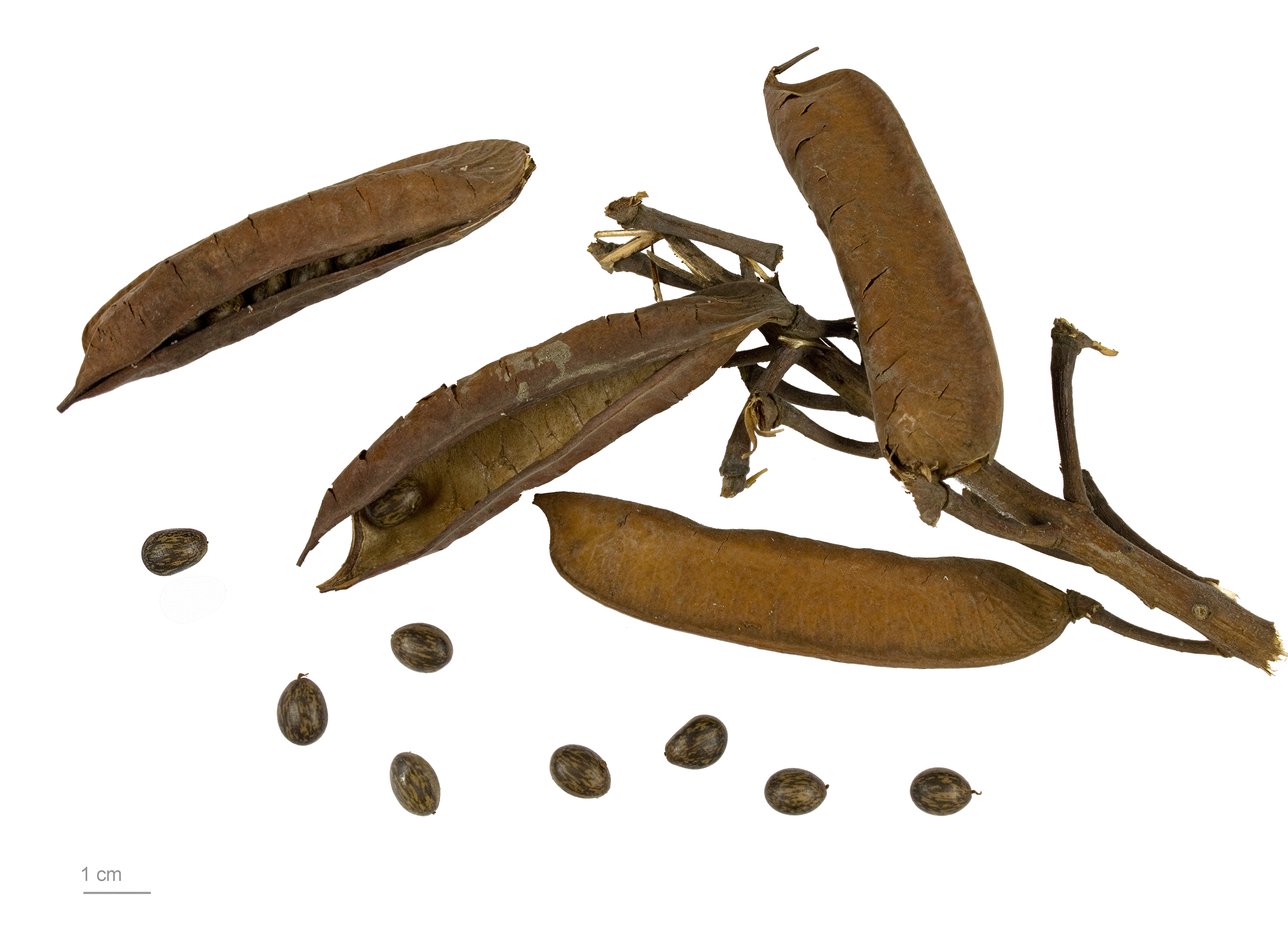 Mauritius or Mysore thorn , fruits and seeds